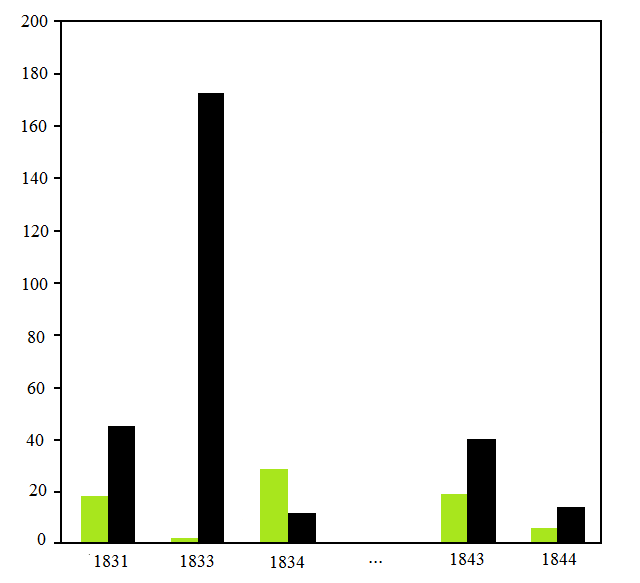 Dead sheep in the district Surrey Hills, killed by thylacines and poaching dogs over five years. green = thylacines, black = dogs